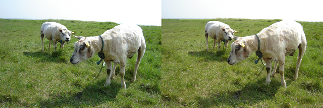 Terschellinger sheep, stereo photo